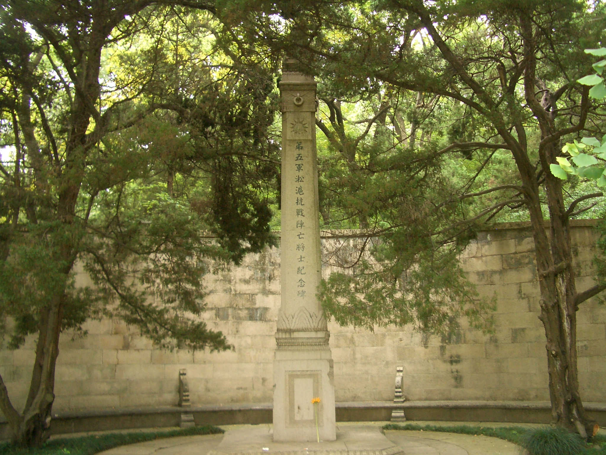 Monument to the Chinese Fifth Army and Nineteenth Route Army Soldiers who fell fighting the Japanese invaders in Shanghai in 1932. Located near Linggu Pagoda in Nanjing